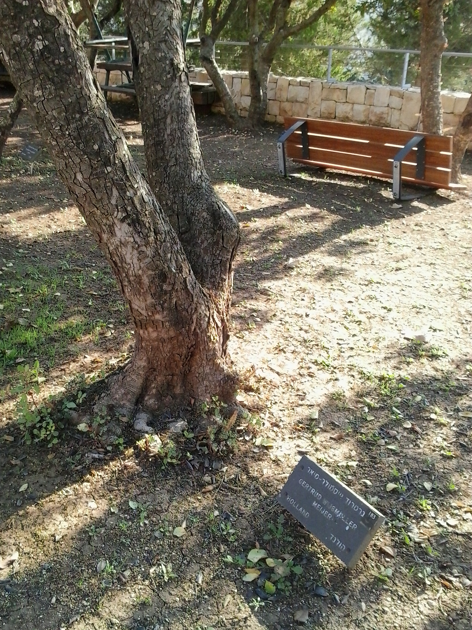 The tree planted at Yad Vashem honoring Righteous Among the Nations Geertruida Wijsmuller-Meyer